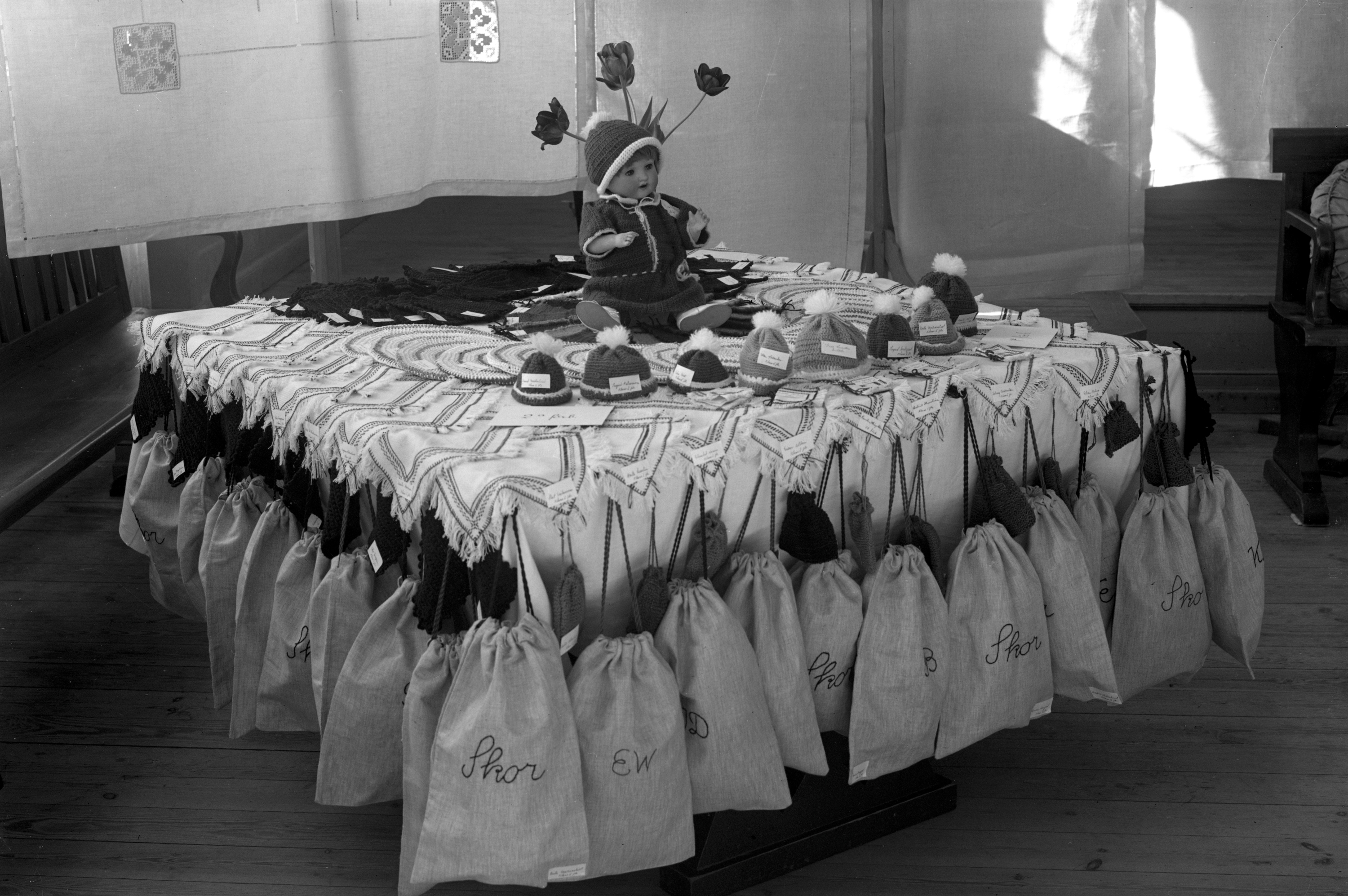 Flickskolans tecknings- och handarbetsutställning år 1928.